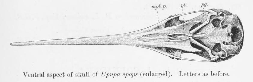 Skull of a Hoopoe